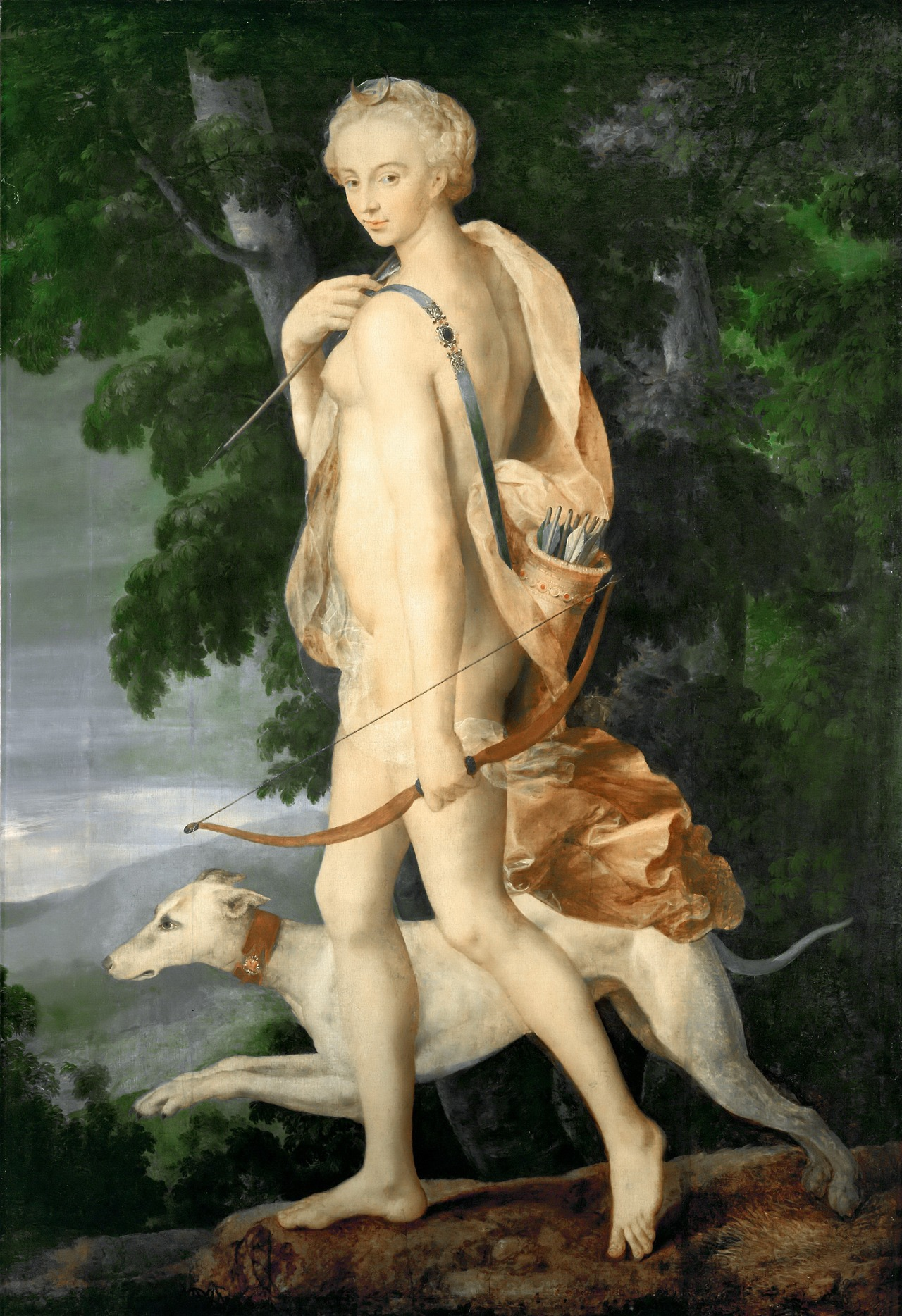 Depicted person: Probably Diane de Poitiers without frame